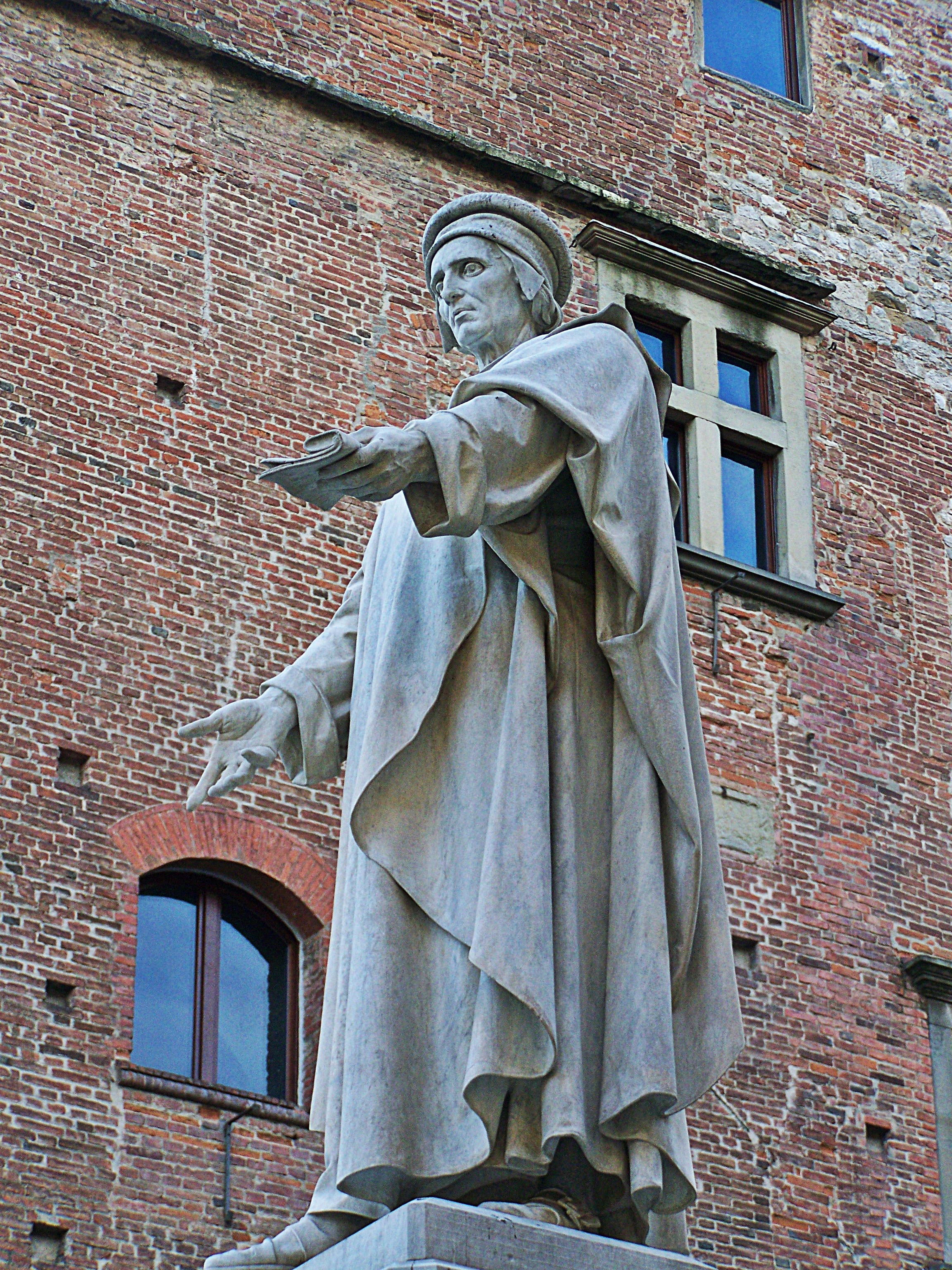 Francesco of Marco Datini monument